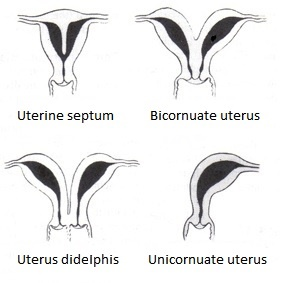 A uterine malformation is a type of female genital malformation resulting from an abnormal development of the Müllerian duct(s) during embryogenesis. The prevalence of uterine malformation is estimated to be 6-7% in the human female population. They may cause premature birth. Didelphis and bicornuate uterus are the normal anatomy in some mammals, just not in humans.